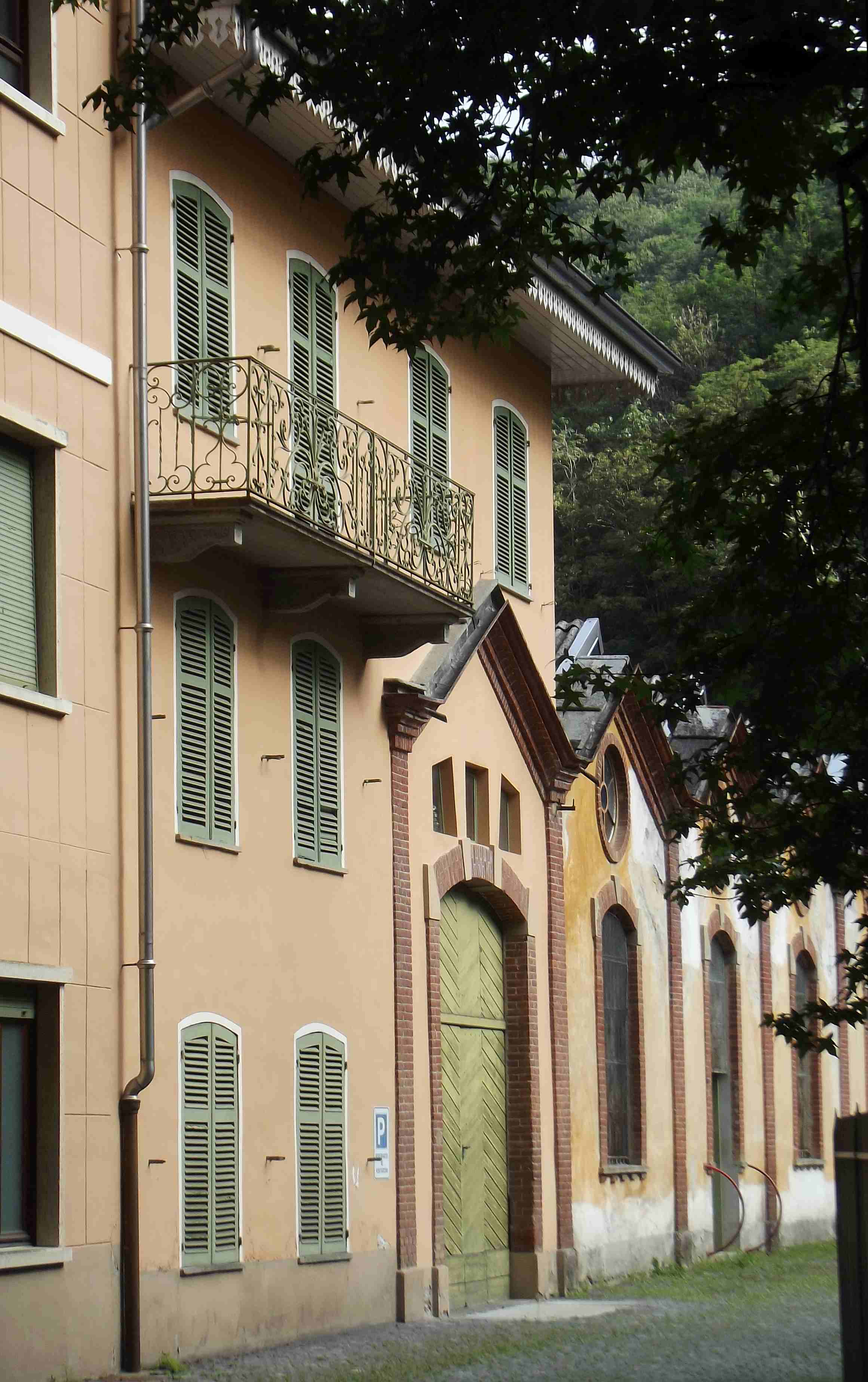 Lanificio Barbera (Pianezze di Callabiana): the oldest part of the factory